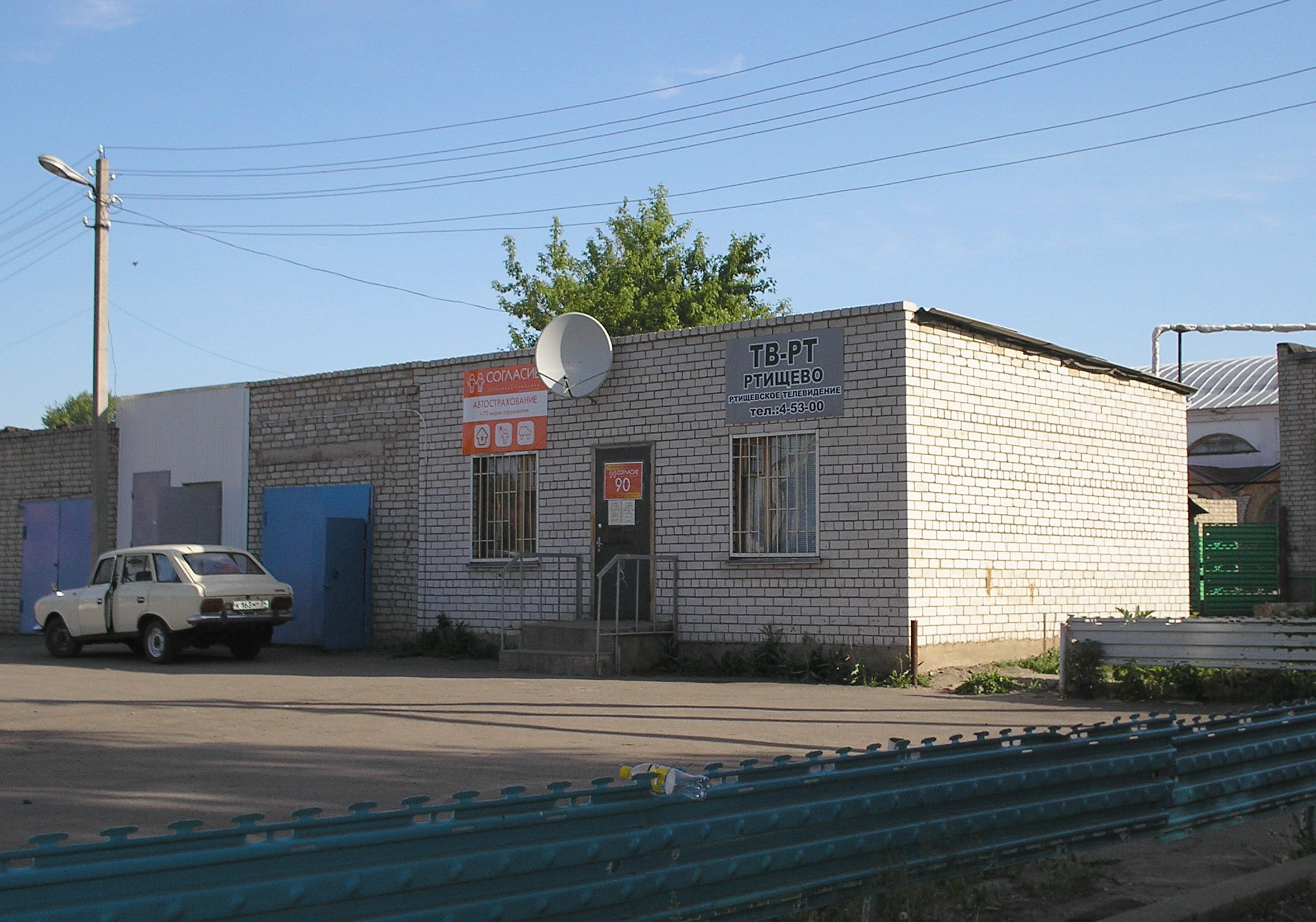 Rtishchevo. TV-Rt